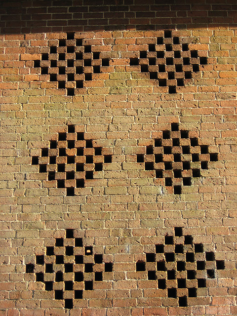 Ventilation holes (weep holes). Brickwork detail on the red brick barn, Bridge Lane, Wellington. Source: .uk - 1060926